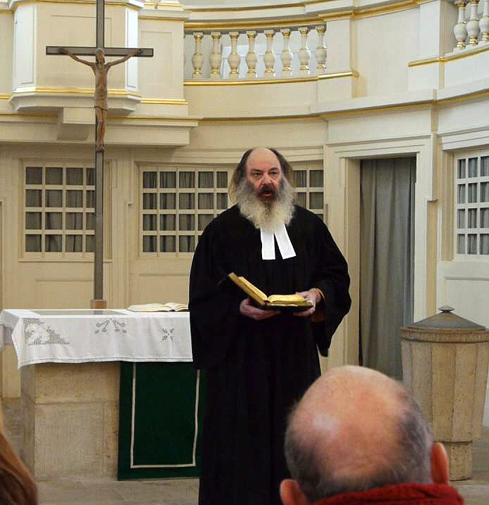 pastor Lothar Koenig